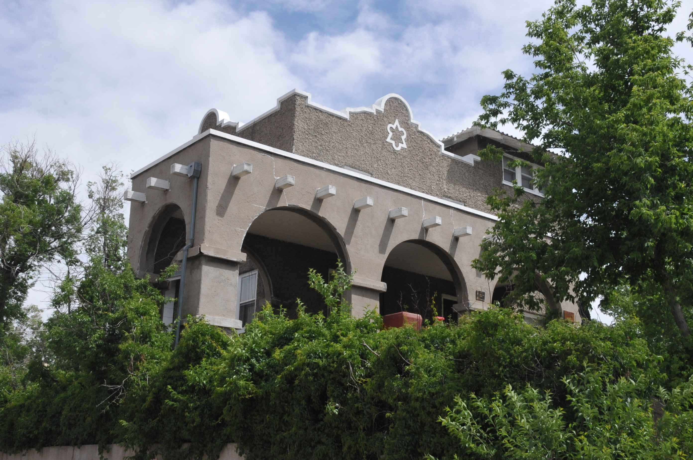 BUILT IN 1914 FOR THOMAS HEANEY, A PROMINENT BUSINESSMAN. BEFORE IT WAS COMPLETE REVEREND WESLEY DUMM PURCHASED THE HOME AND LIVED IN IT UNTIL 1944. THE HOUSE IS SAID TO BE HAUNTED NOW WITH VIOLENT SHAKING OF THE 4-POSTER BED AND BEER BEING DRUNK FROM THE REFRIGERATOR BY A KINDLY GENTLEMAN BELIEVED TO BE REVEREND DUMM